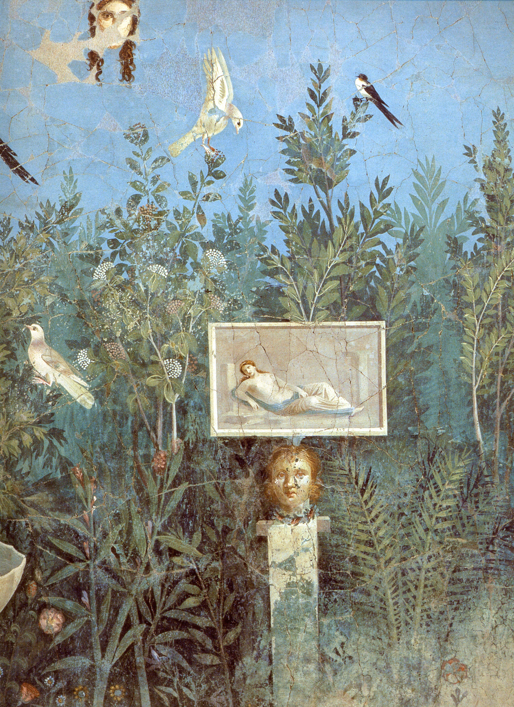 Roman fresco (detail) from the Garden Room of the Casa del Bracciale d'Oro (VI 17, 42) in Pompeii.